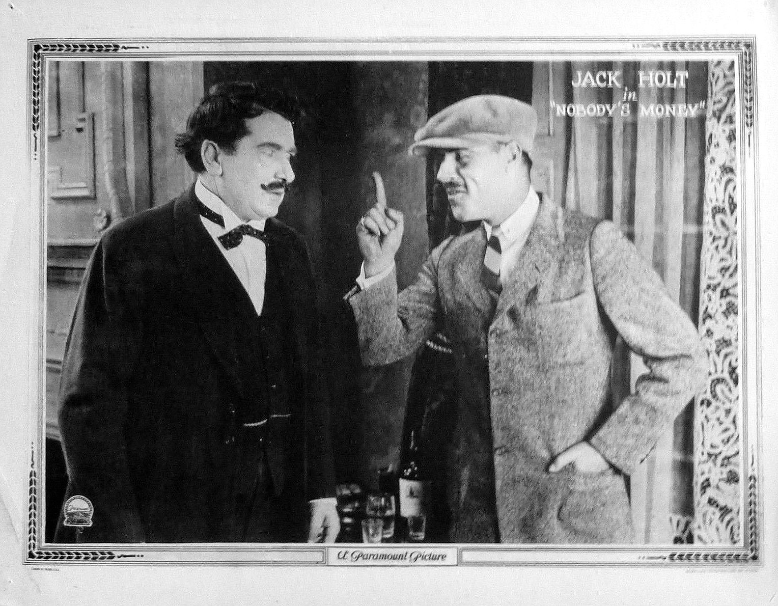 Lobby card for the American comedy film Nobody's Money (1923). Jack Holt is on the right; Will Walling is on the left.